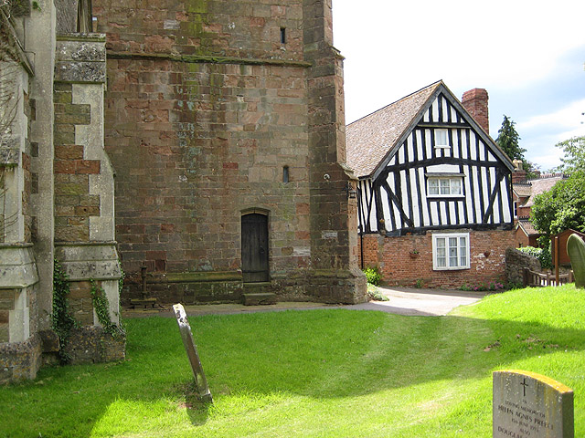 Church House, Redmarley 17th century brick and timber house standing close to the tower of St Bartholomew's Church.